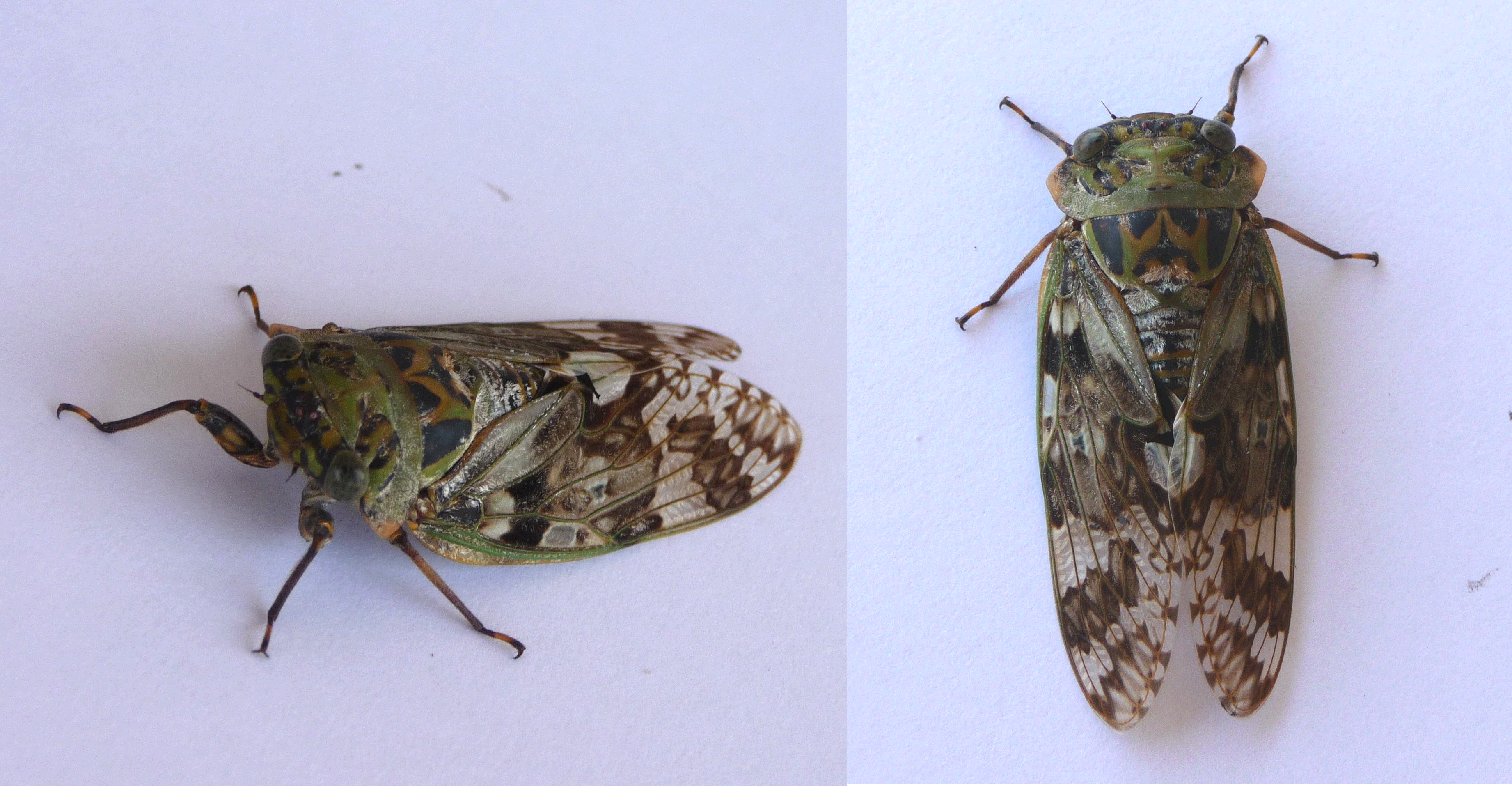 Cicada: (NiiNii cicada in Japan)